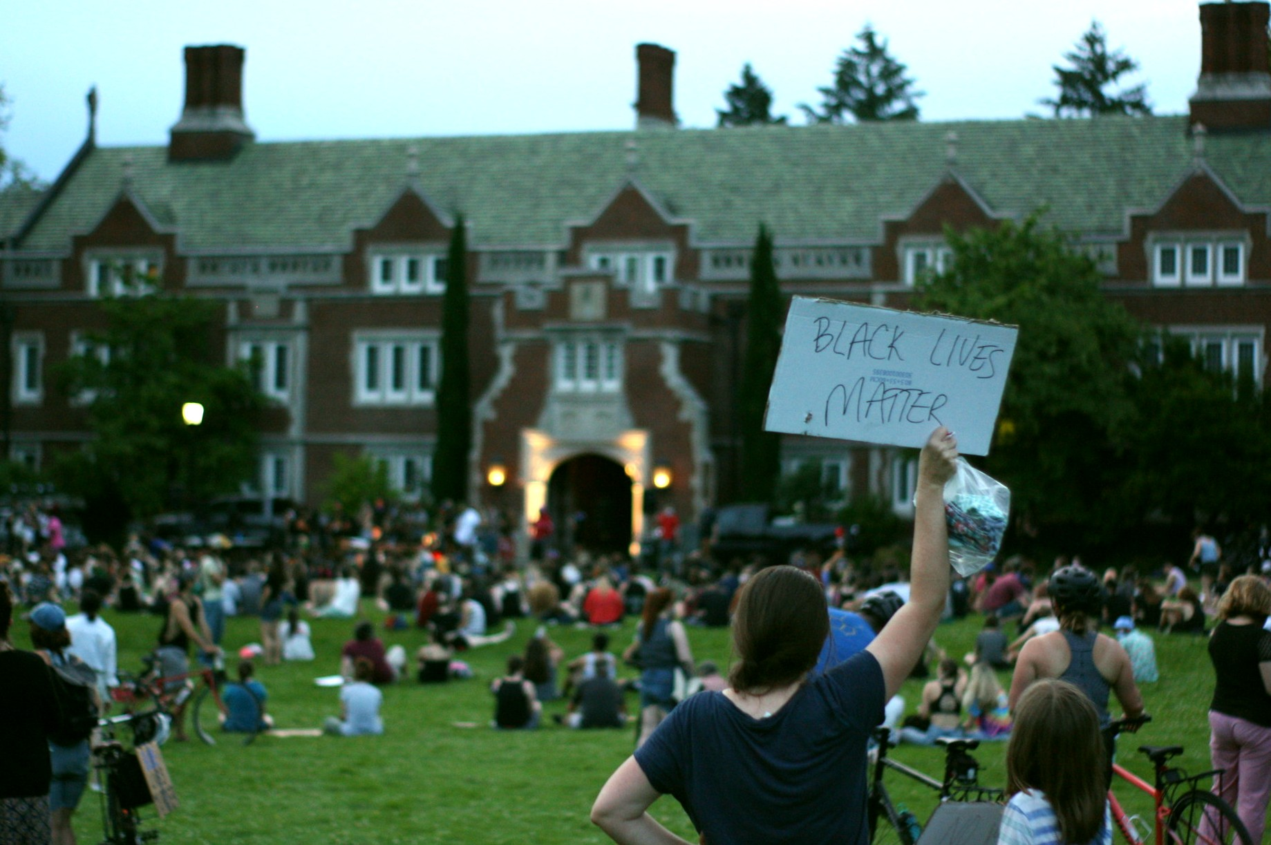 This demonstration occurred on the first day of sentencing of Jeremy Christian, and focused on white allies of Black Lives Matter. Protesters convened at Powell Park on SE 26th and Powell and marched to Reed College, with a detour along SE Reed College Place, and then back.